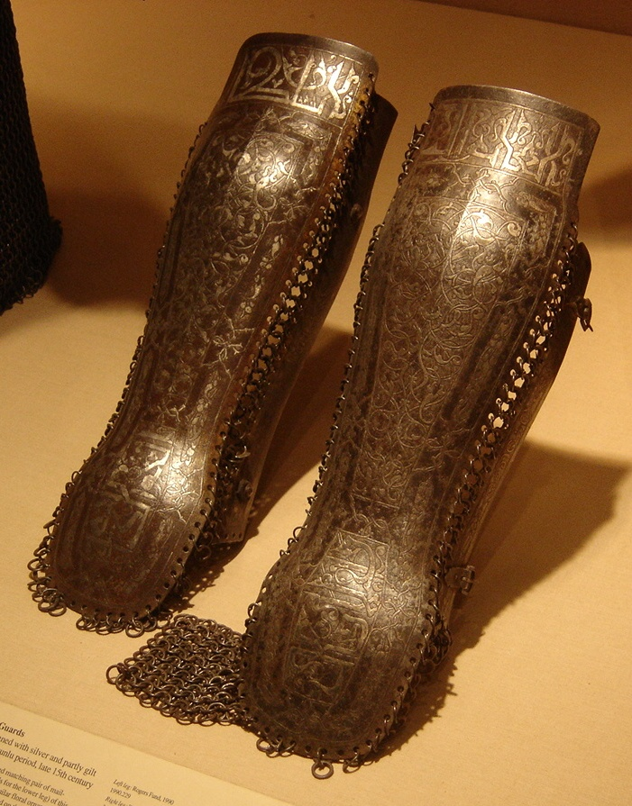 Mail and plate kolçak (greaves), calf and ankle protection as worn by fully armored cavalryman, steel. Damascened with silver and partly gilt. 15th century Aq-Qoyunlu/Shirvani period. Iran. New York Metropolitan Museum of Art.